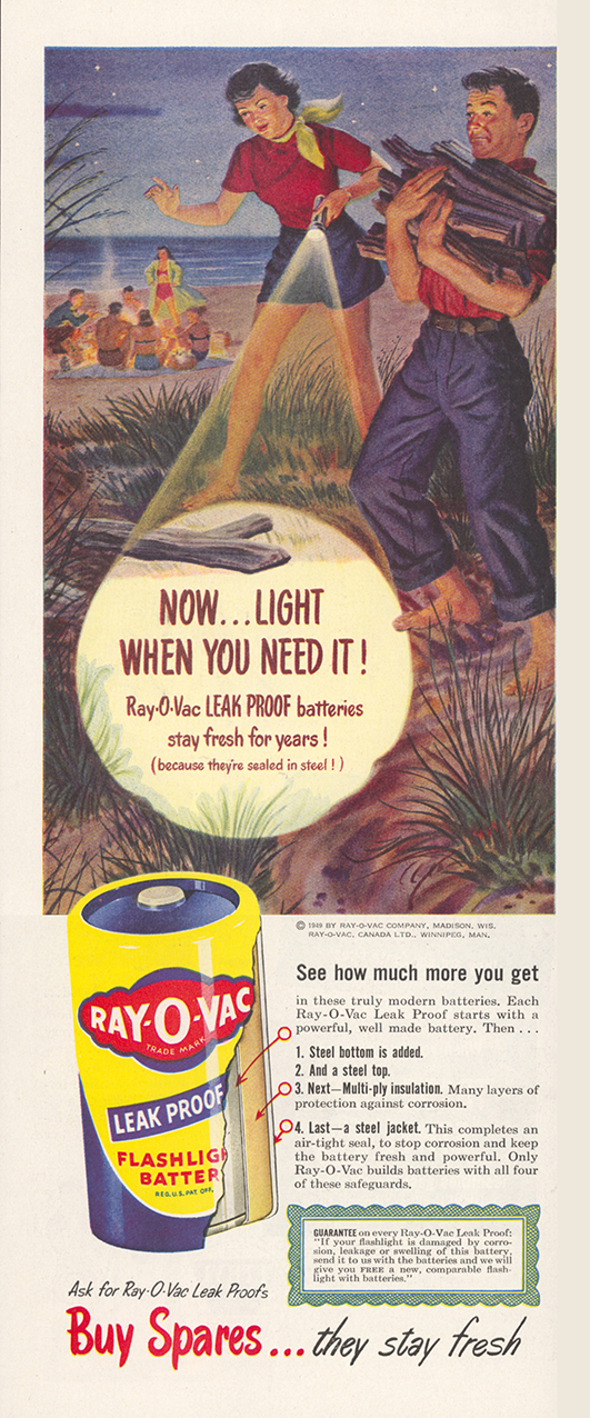 Press advertisement for Ray-O-Vac published in the USA in 1949